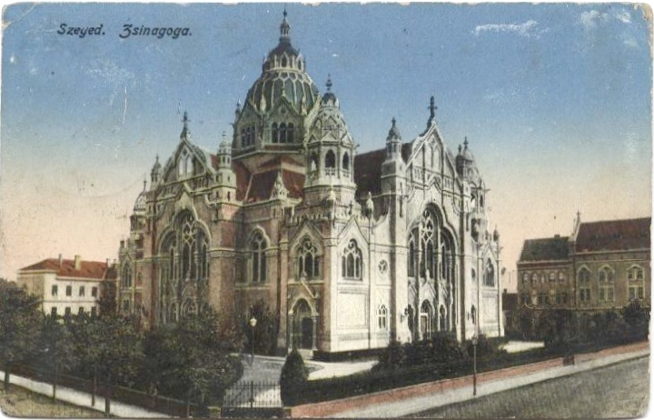 New synagogue of Szeged in Hungary. Post-card of 1913.